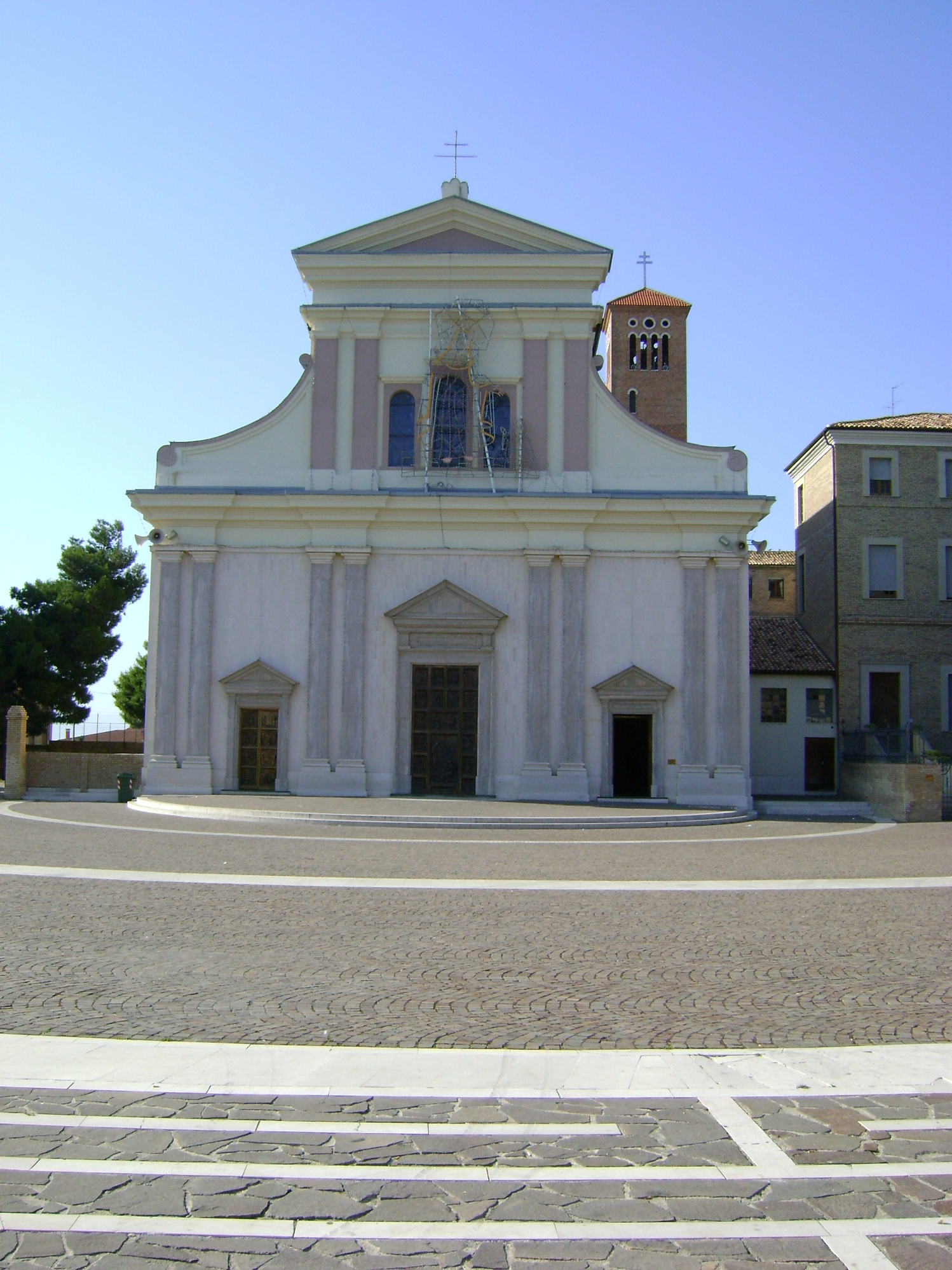 A view of the Shrine of Our Lady of Miracles, Casalbordino, province of Chieti, Abruzzo